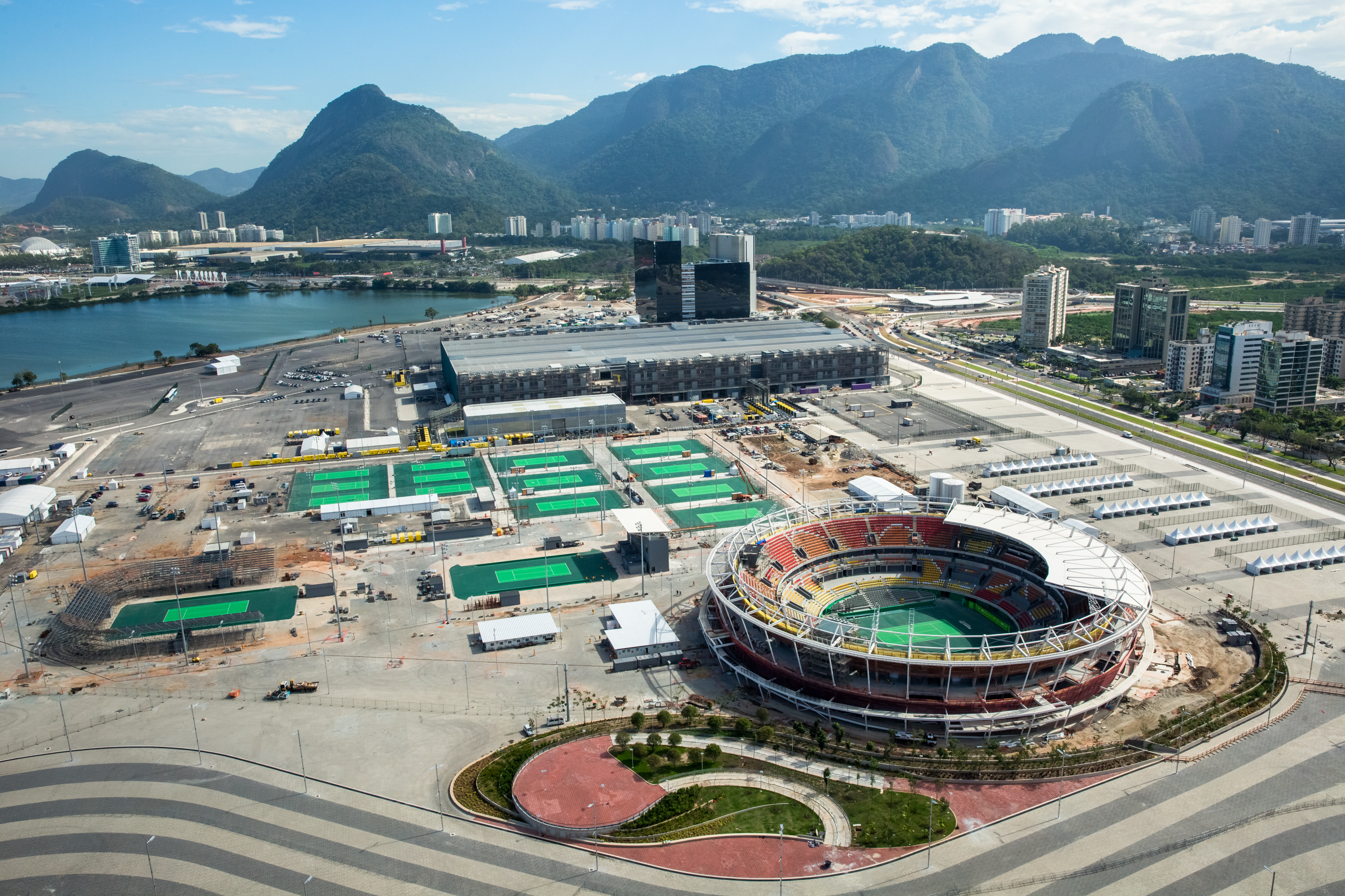 Objects of the Olympic Park with the bird's-eye view.